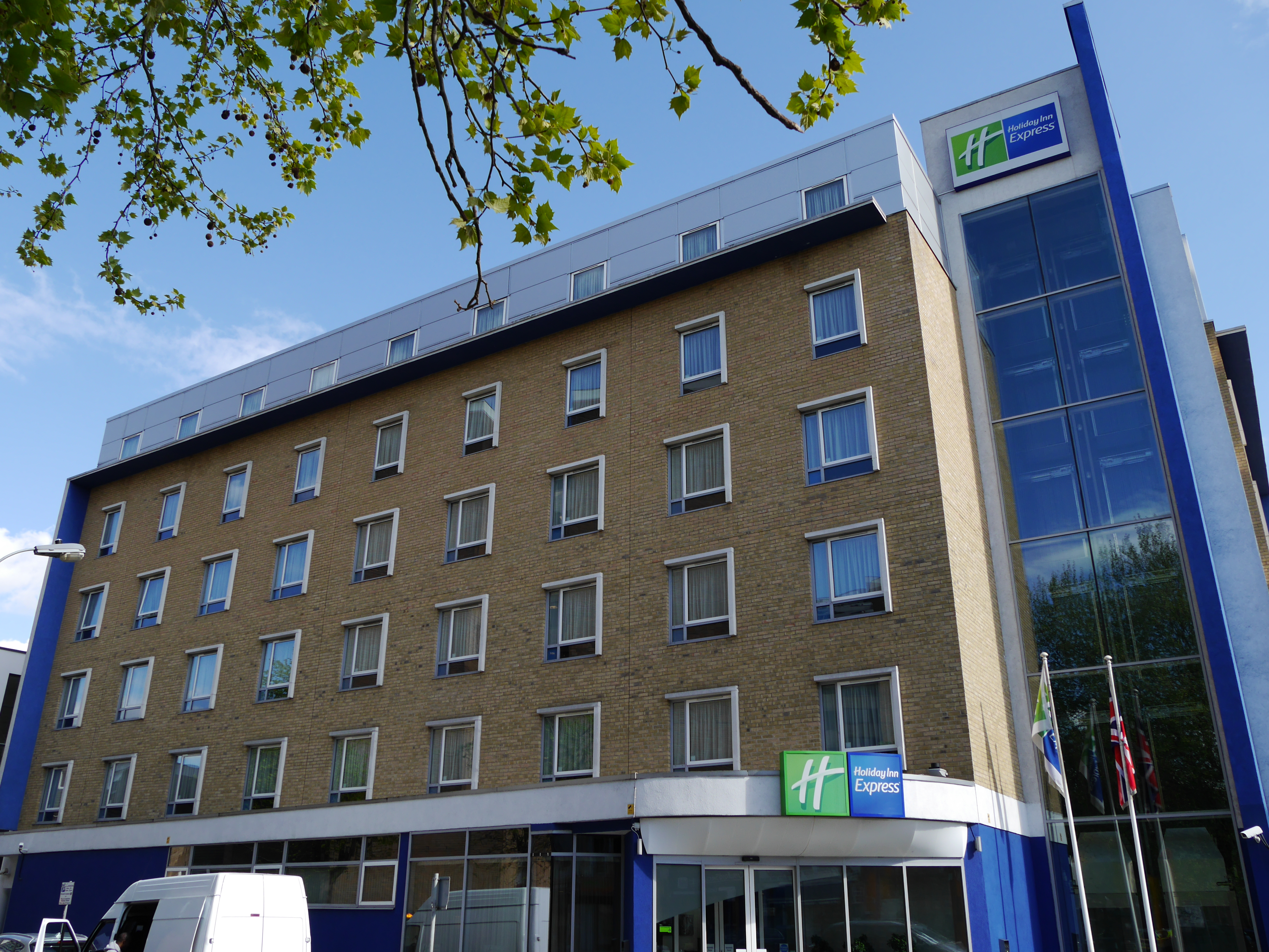 North End Road, Fulham, London